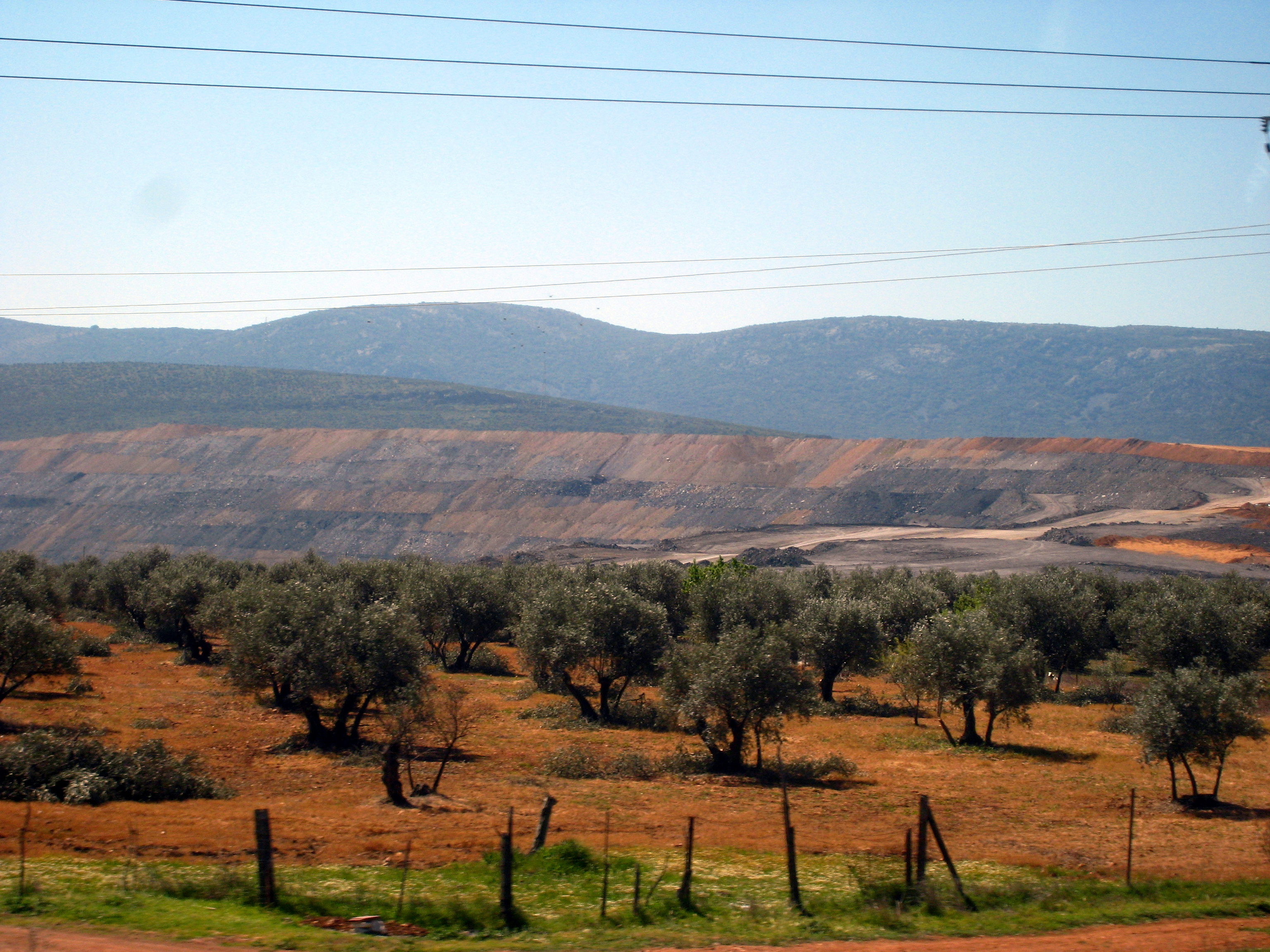 From the train, near Puertollano and ISFOC